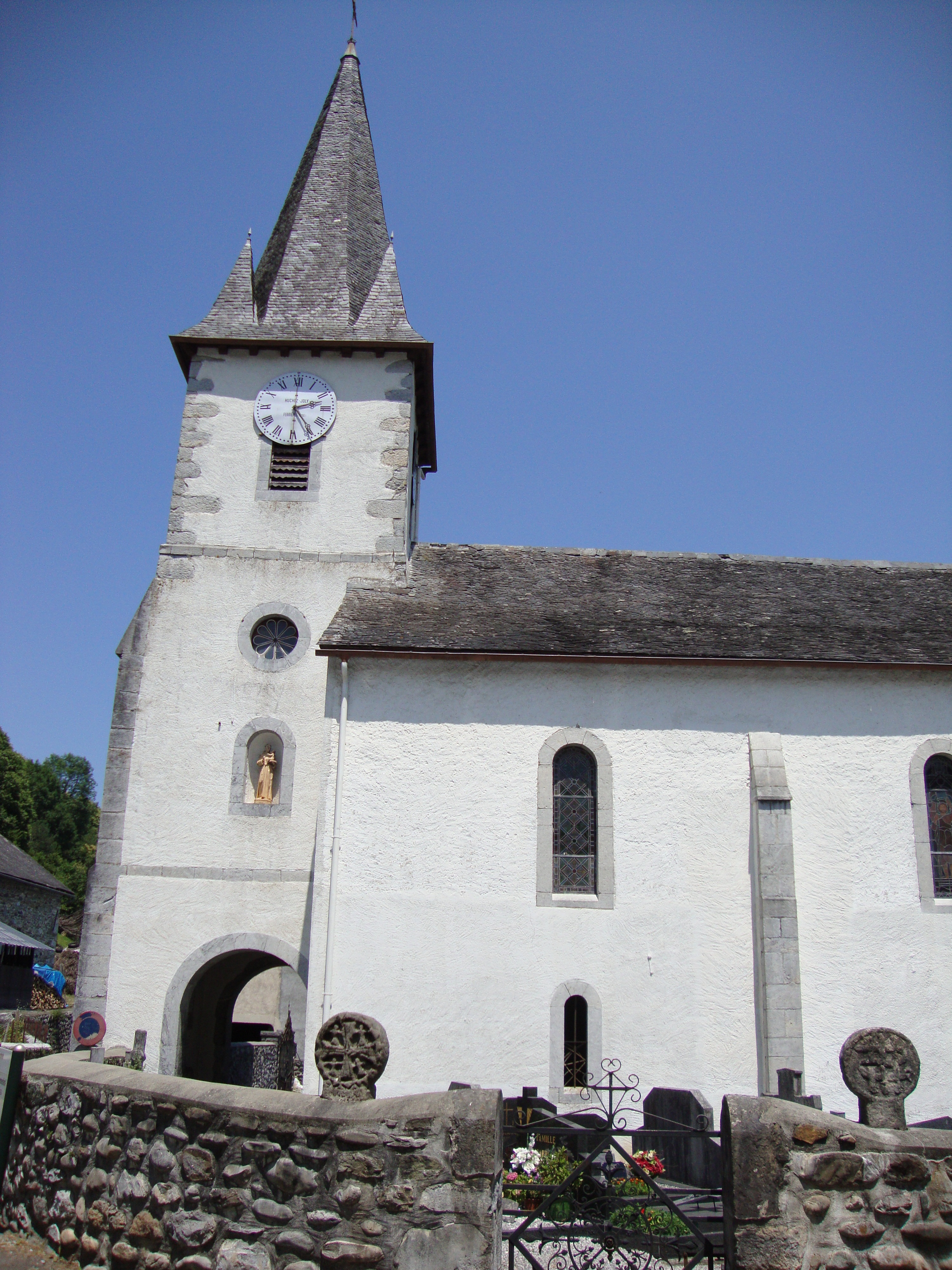 Licq (Licq-Athéry, Pyr-Atl, Fr) Church and cemetery; some discoidal steles are visible.